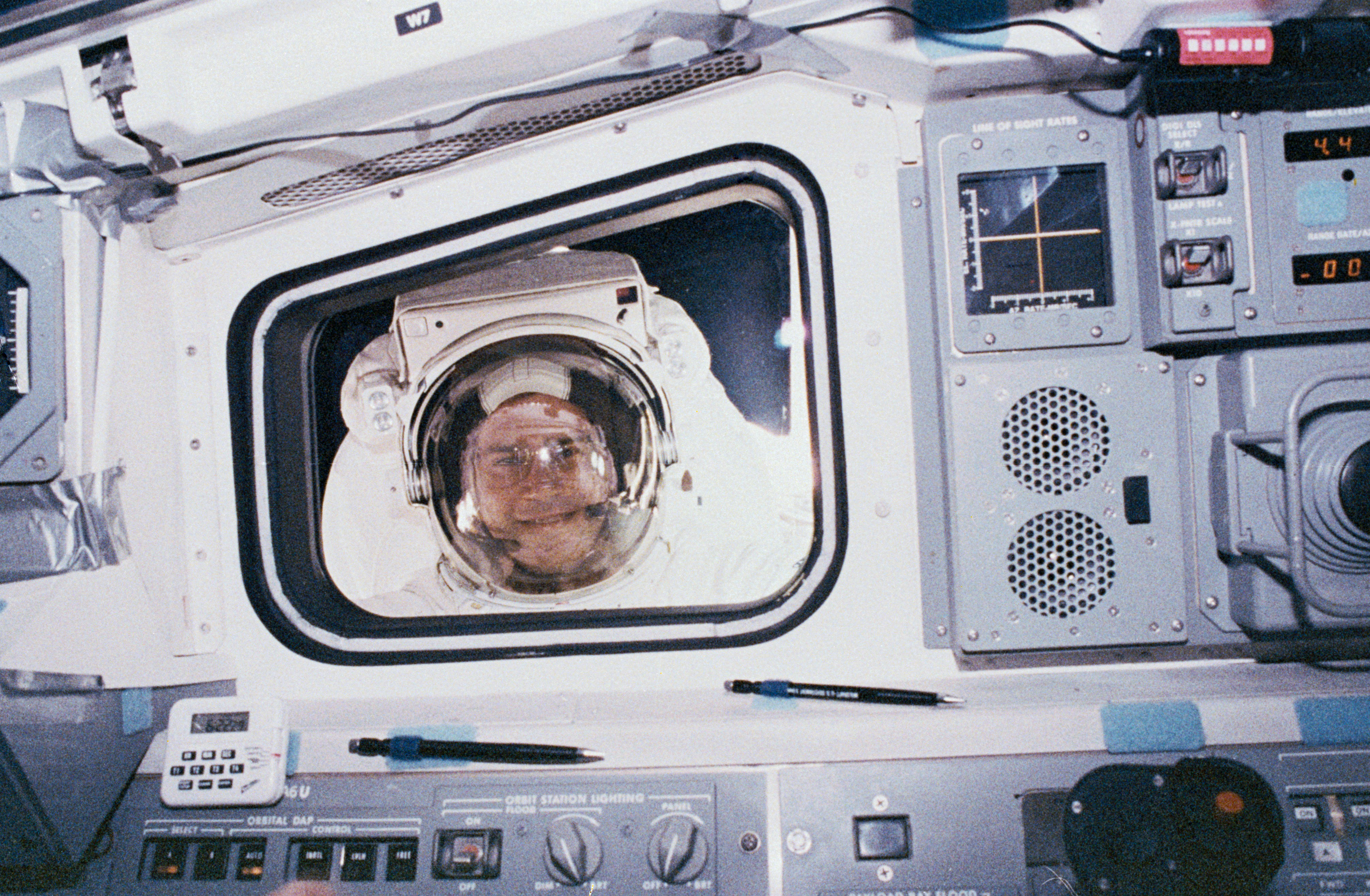 Rick Hieb, a Mission Specialist aboard STS-49, looks into the aft flight deck of the orbiter during his spacewalk. STS-49, which launched on May 7, 1992 and returned to Earth on May 16, 1992, marked the first flight of Endeavour and the first shuttle mission to feature four EVAs. Hieb, along with fellow astronauts Pierre Thuot and Thomas Akers helped to recover INTELSAT VI, a communications satellite whose orbit had become unstable.